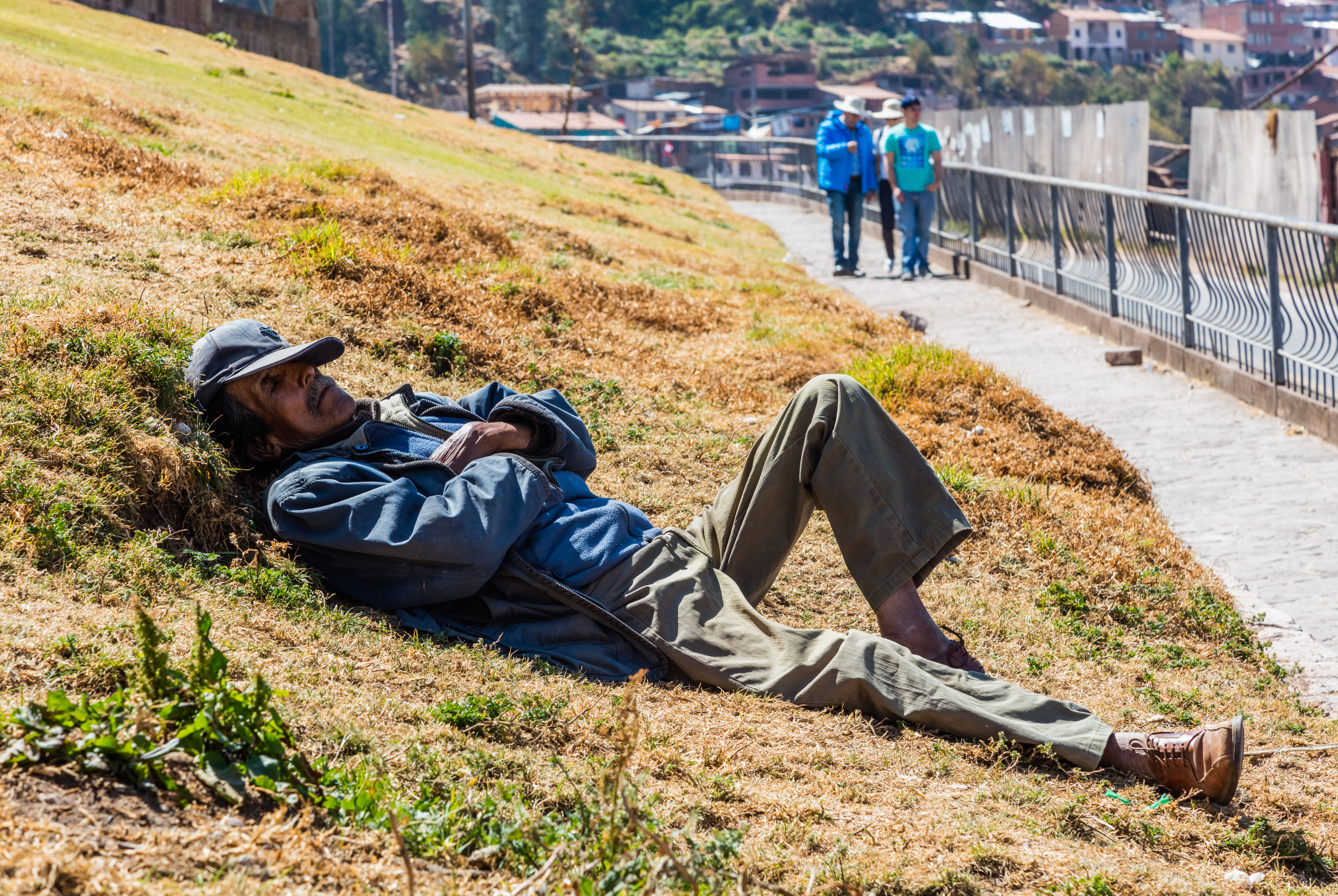 Man having a sleep in San Cristóbal, Cusco, Peru